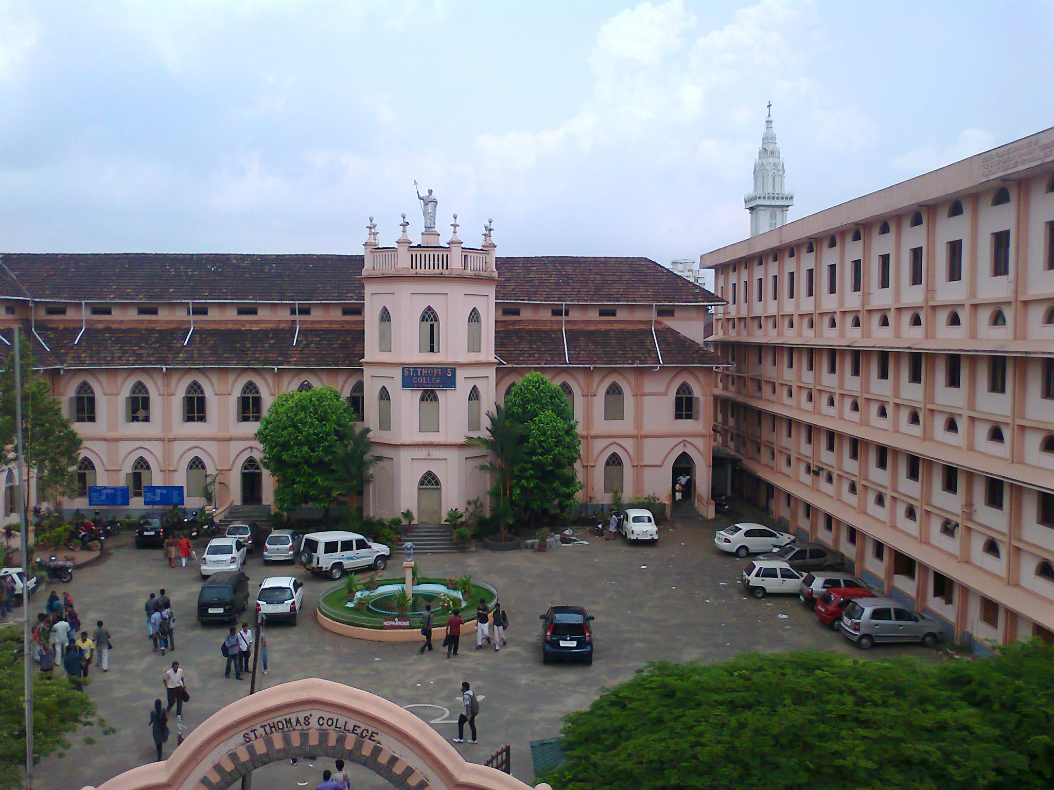 Administration Block of St. Thomas College', Thrissur.